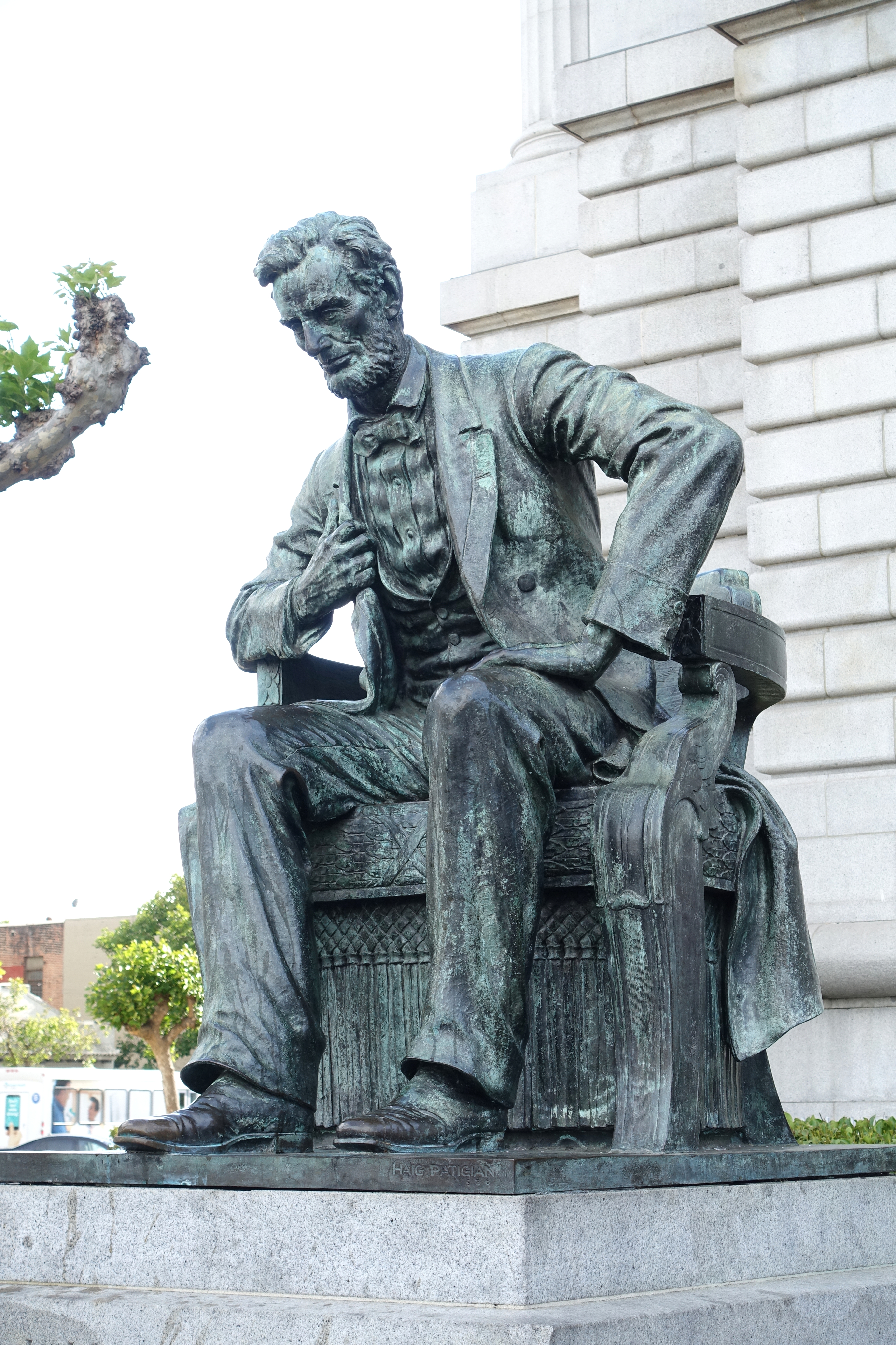 Abraham Lincoln by Haig Patigian (1876-1950) - San Francisco City Hall, San Francisco, California, USA. This artwork was created in 1926. It is in the public domain because it was published in the United States between 1923 and 1963, with its copyright not renewed.